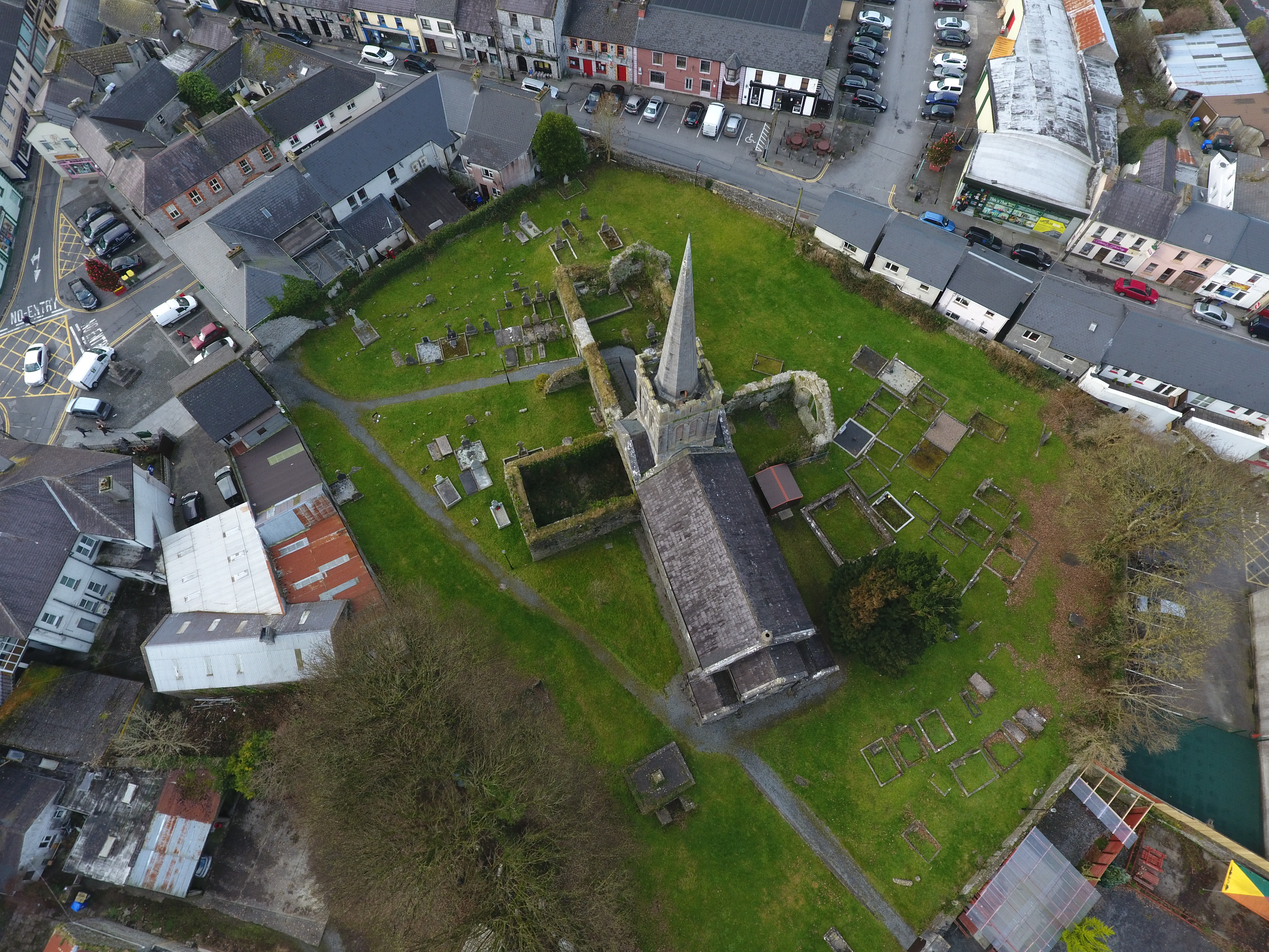 Aerial shot of St Mary's church in Athenry, Co. Galway, Ireland.